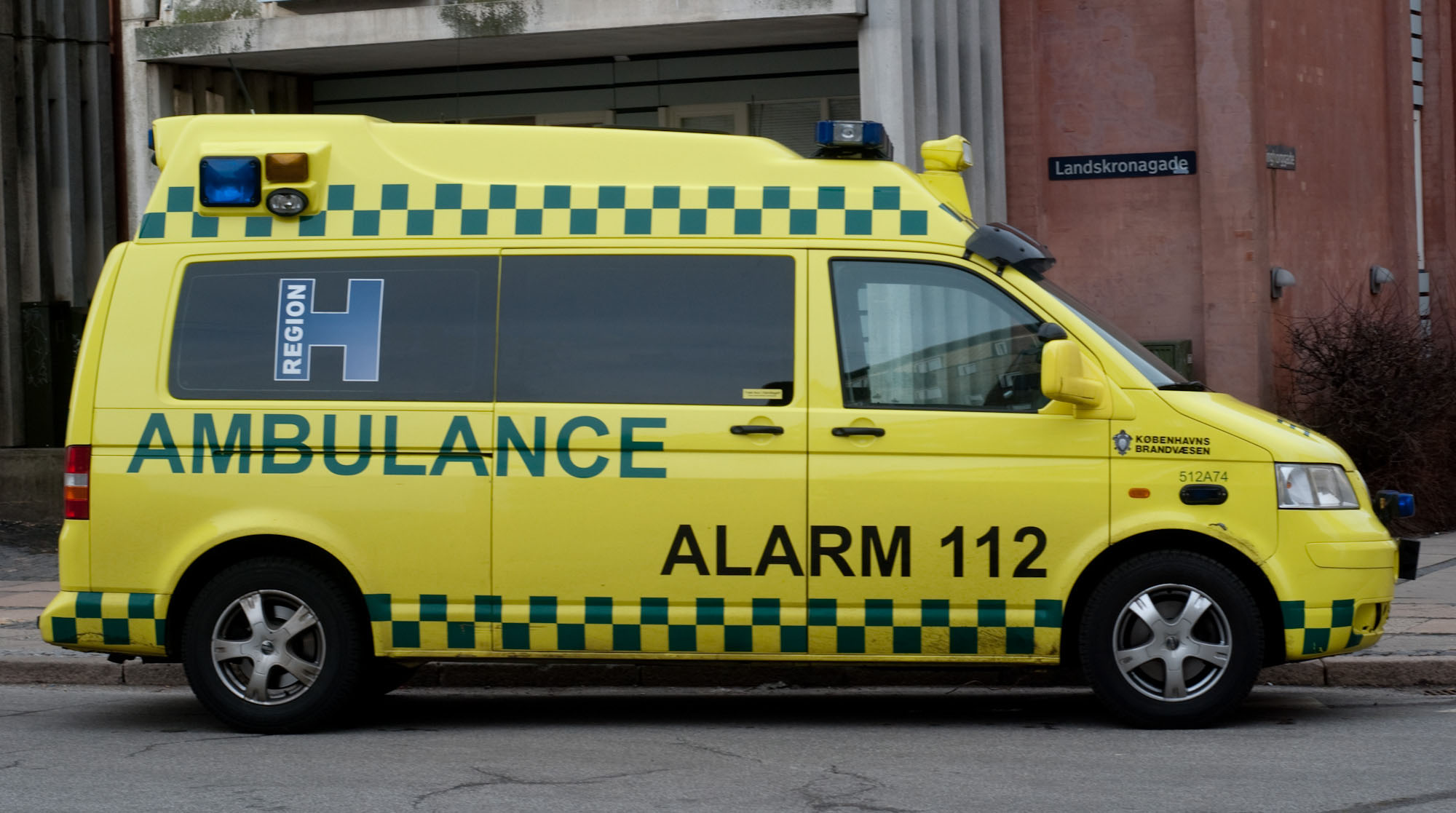 The new national ambulance design, introduced in 2009. Here on a ambulance operated in Region H (Copenhagen)